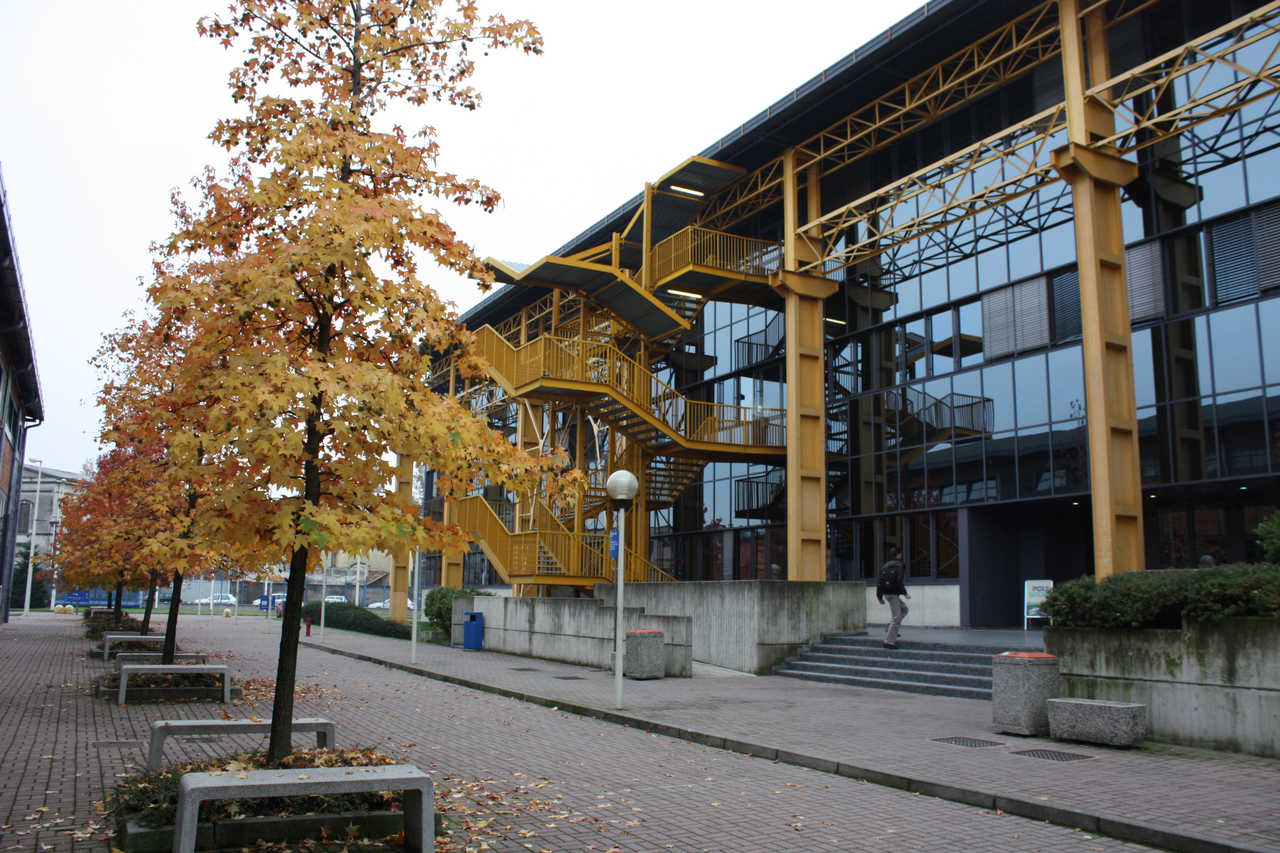 Politecnico di Milano Bovisa, Milan, Italy